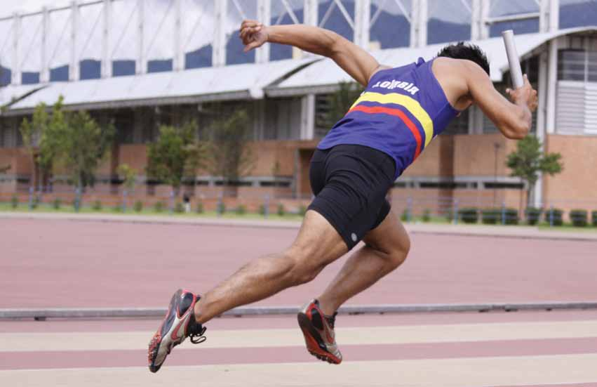 relay race (athletics)